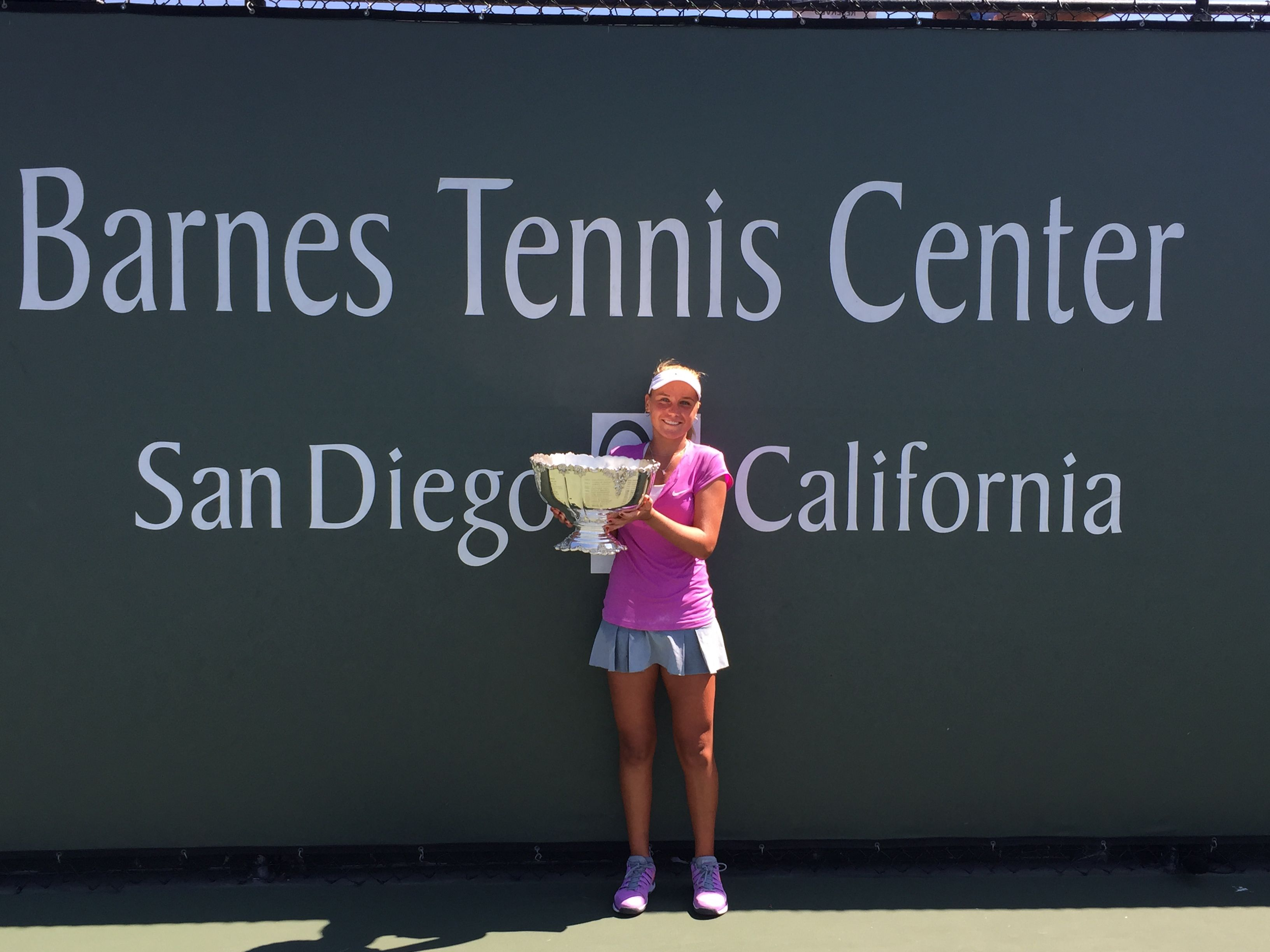 San Diego Hard Courts National Champion - Wild Card into US Open Sun, August 09, 2015